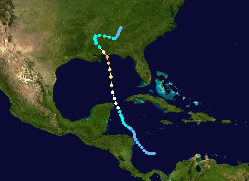 1916 Atlantic hurricane 2 track. Uses the color scheme from the Saffir-Simpson Hurricane Scale.